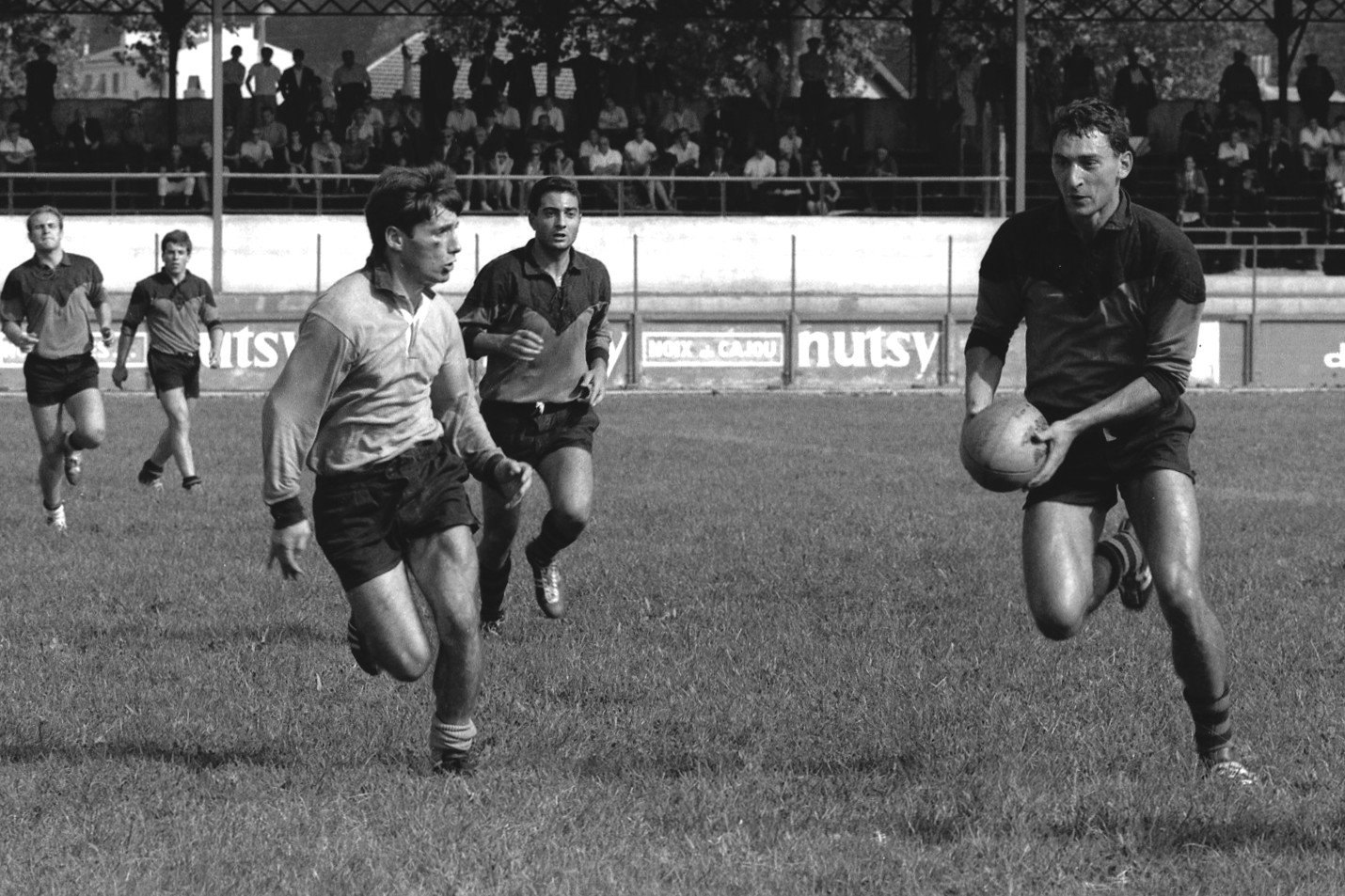 Pierre Villepreux during a 1966-67 rugby union French league match at Ernest Wallon Stadium, Toulouse